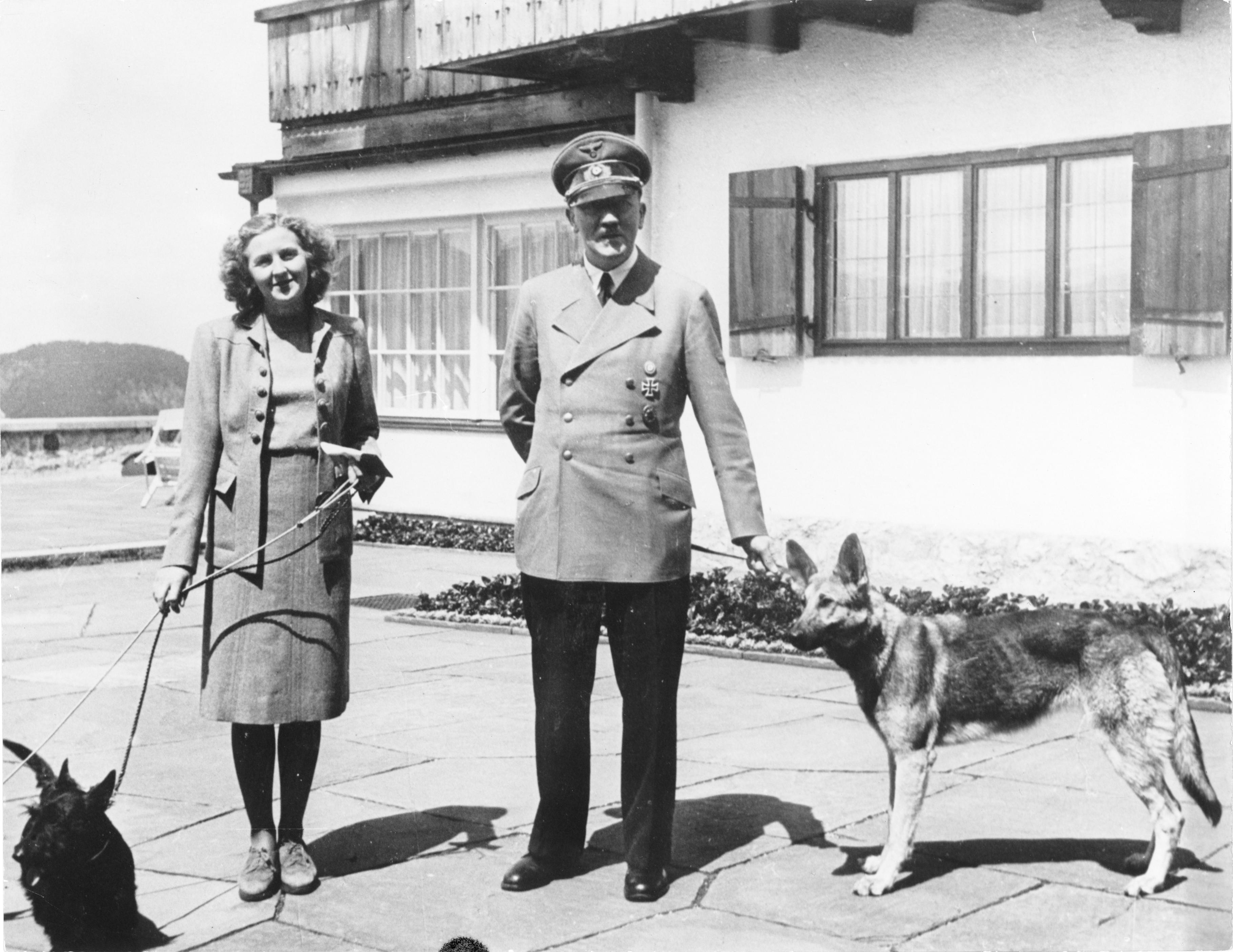 Obersalzberg- Adolf Hitler and Eva Braun with dogs (German_Shepherd_Dog "Blondi"?) at the Berghof Factual corrections and alternative descriptions are encouraged separately from the original description. Additionally errors can be reported at this page to inform the Bundesarchiv. Original historic description